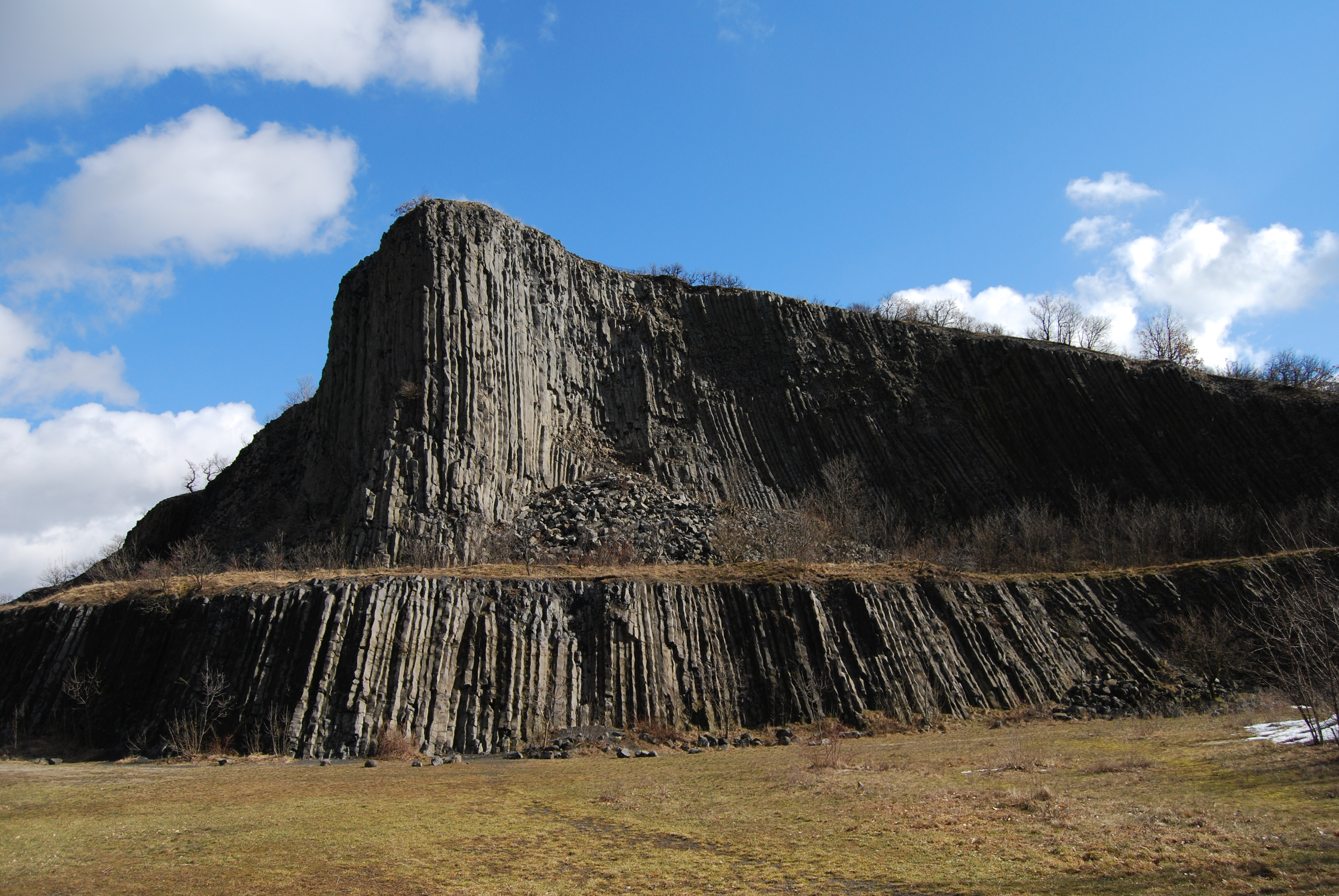 Hegyestű Geológiai Bemutatóhely near Balaton lake, Hungary.